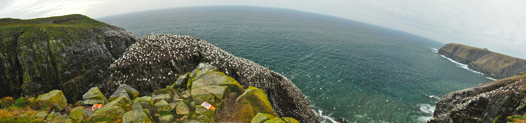 Cape St. Mary's, Newfoundland